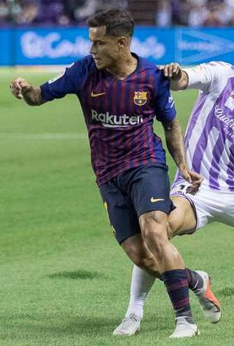 Real Valladolid - F. C. Barcelona, 2nd fixture of the 2018-19 La Liga, August 25, 2018.